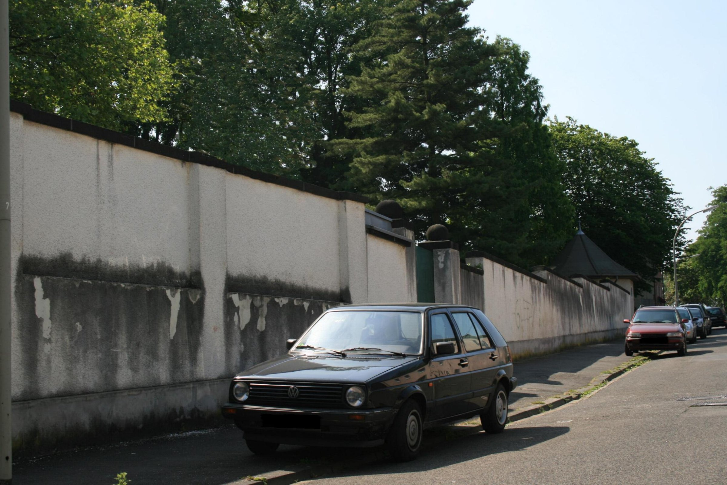 Cultural heritage monument No. H 061 in Mönchengladbach